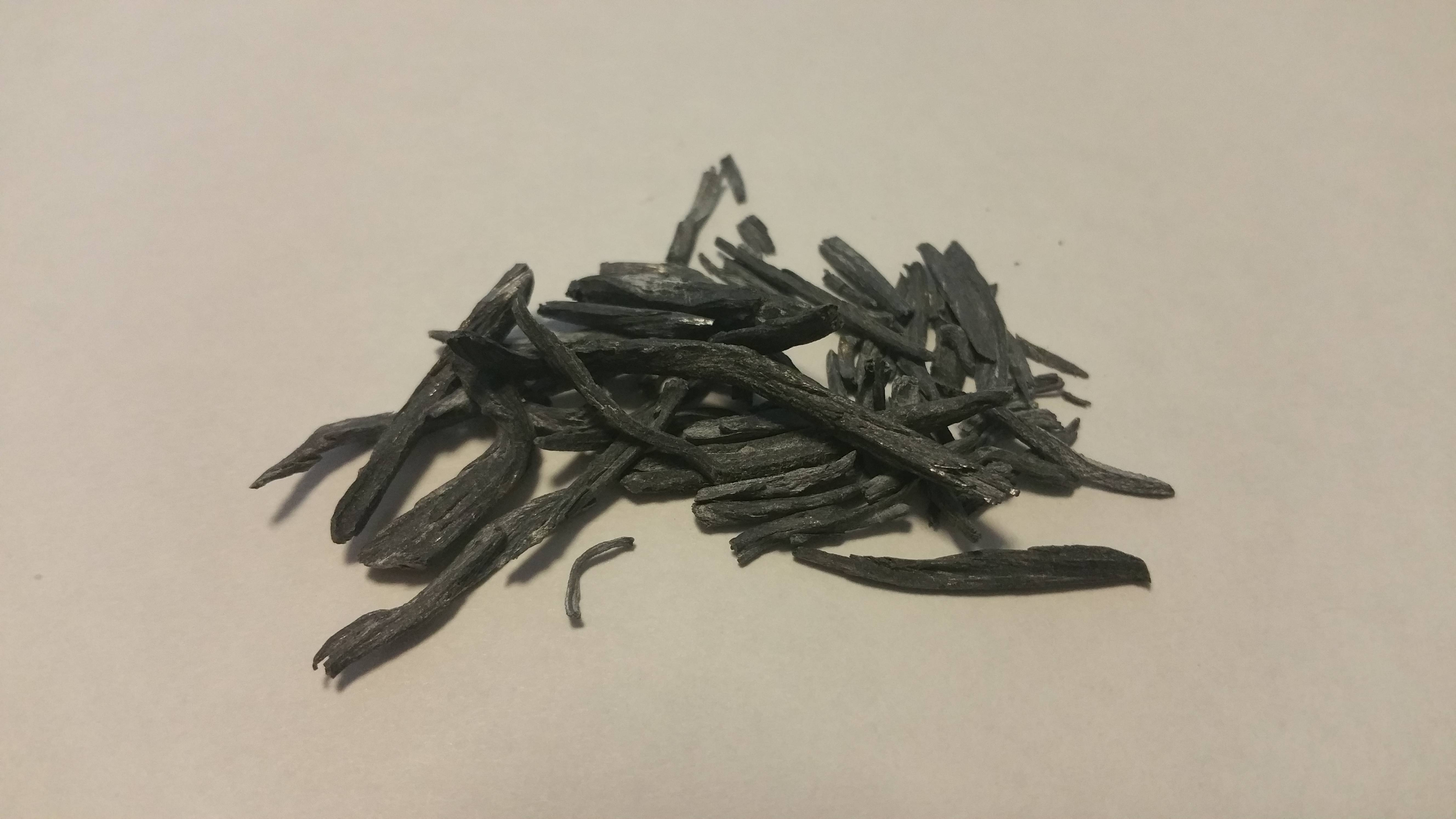 Approximately 6 grams of oxidized samarium shards from a larger piece.